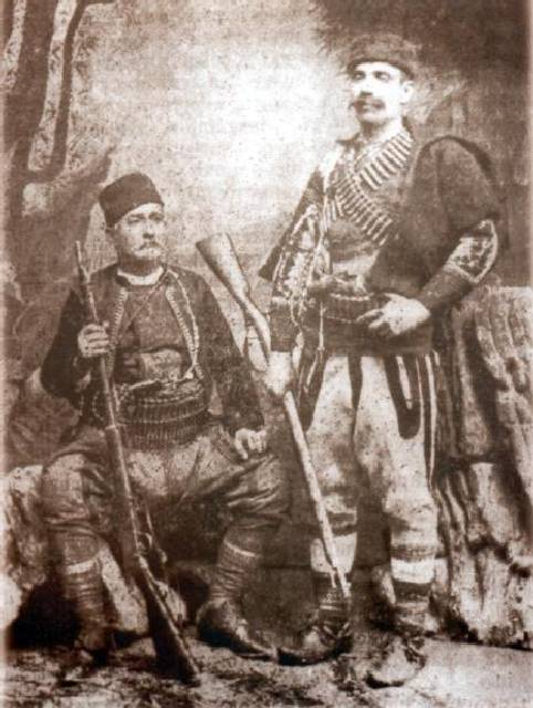 portrait of Mirche Acev/left/ and other voivoda